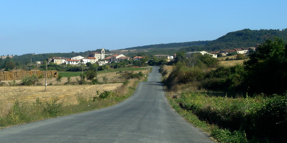 Baroja (Araba, Basque Country, Spain)